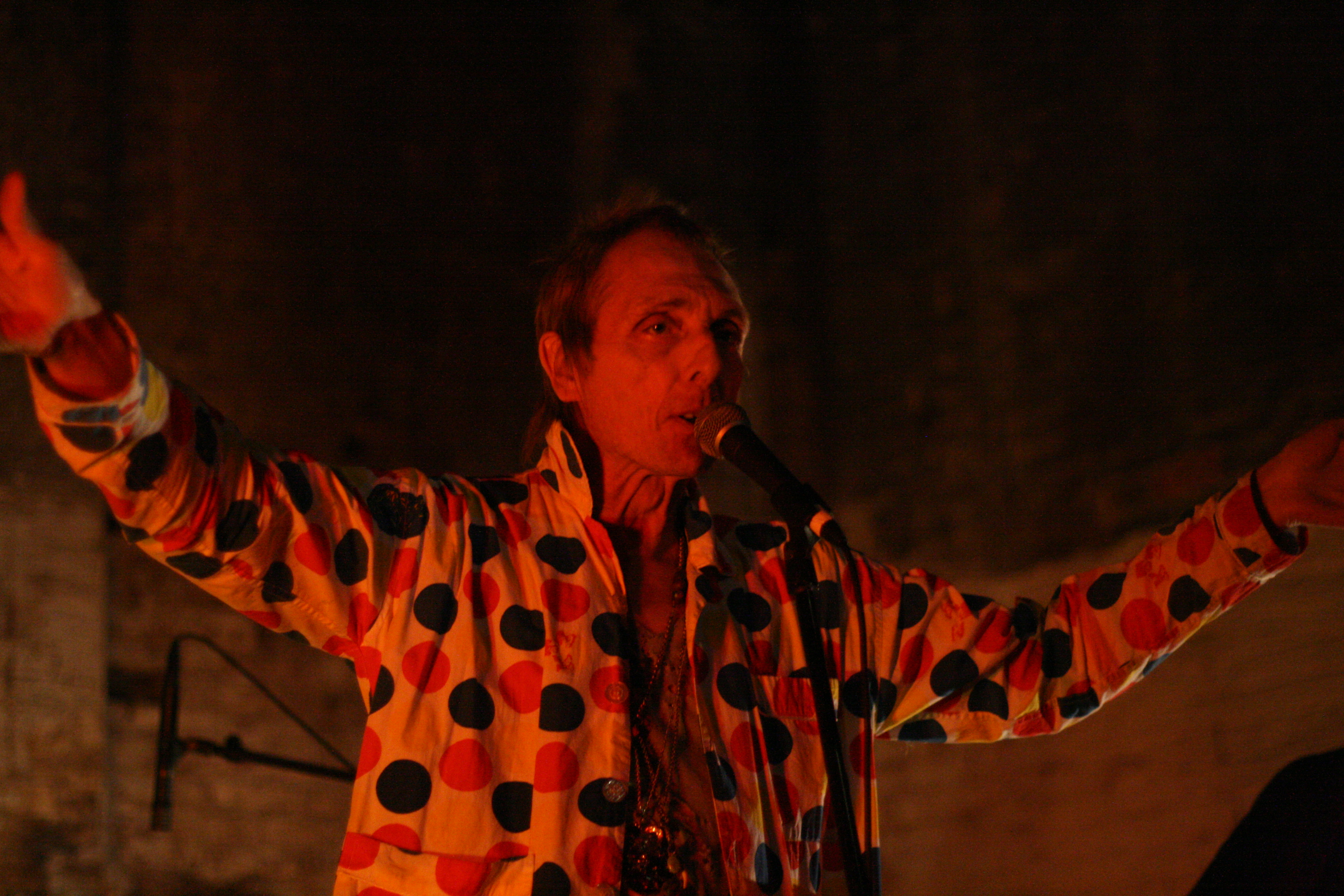 The Homosexuals. Danbro Brewery Brooklyn; Halloween (Bruno Wizard)